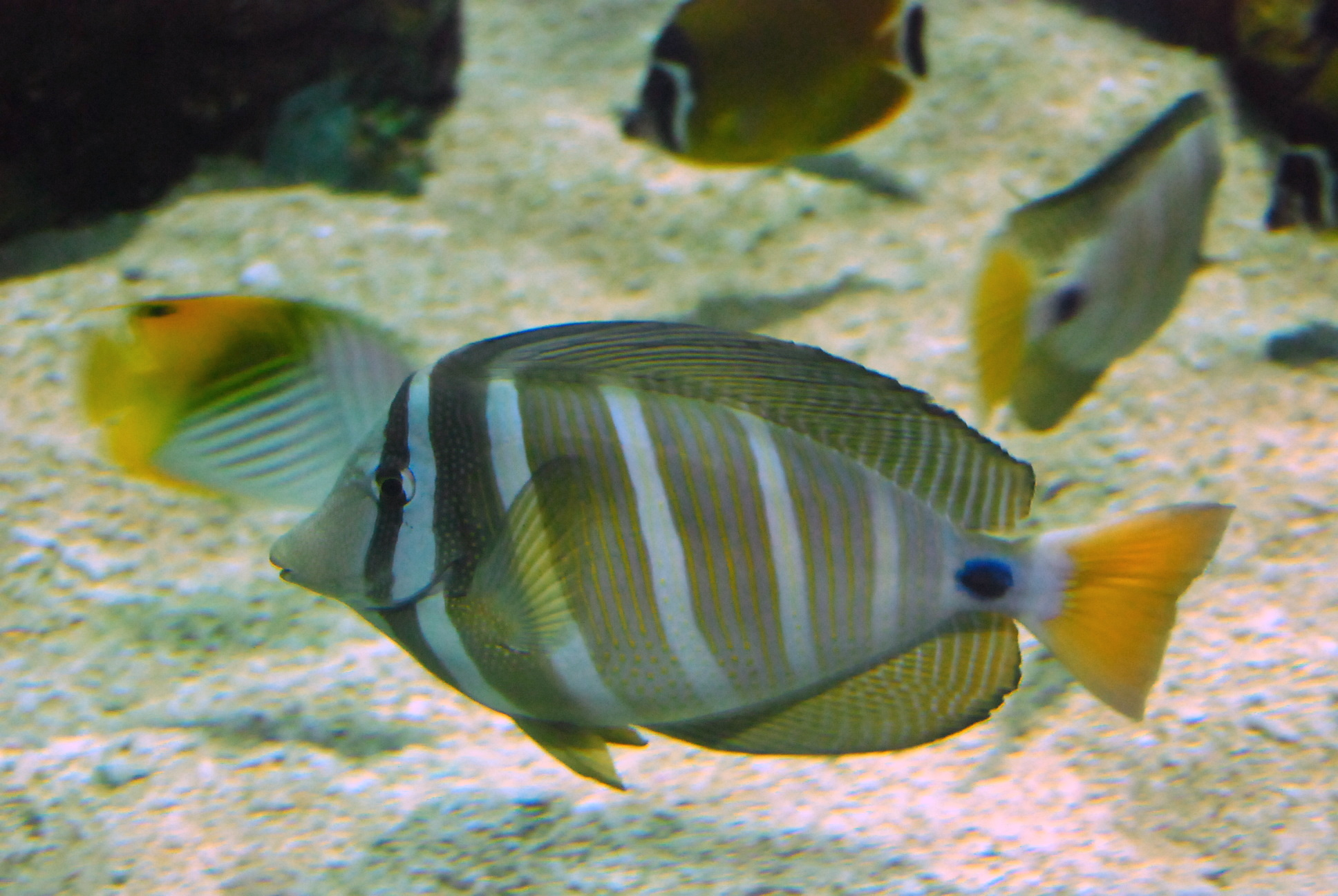 Zebrasoma veliferum